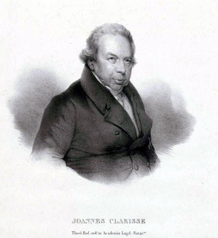 Johann Clarisse (1770-1846) Theologian from the Netherlands